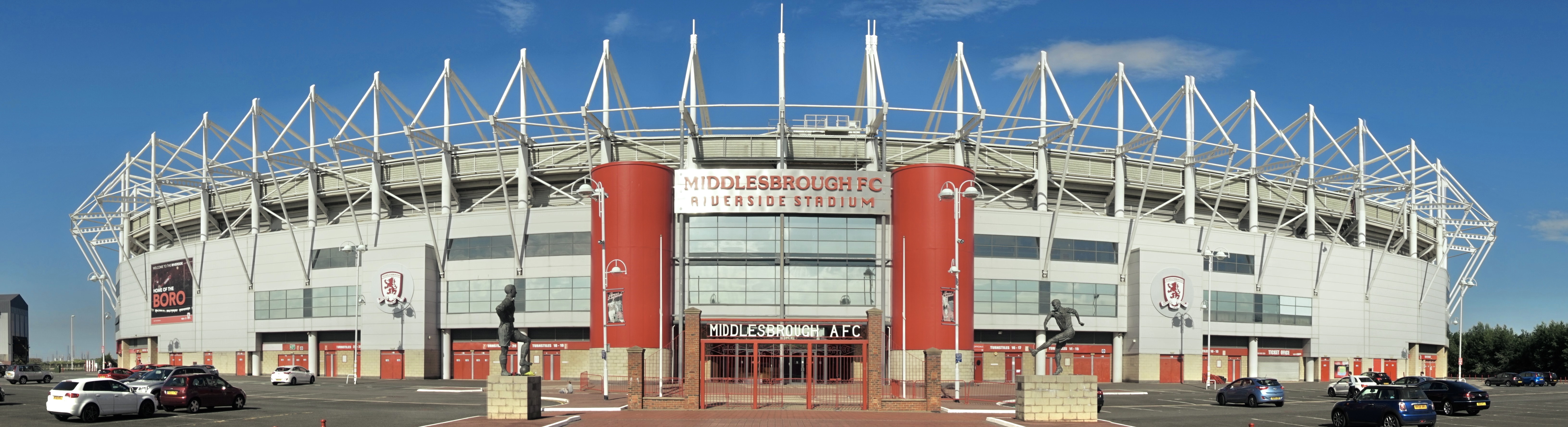 The home ground for Middlesbrough Football Club, the Riverside Stadium.